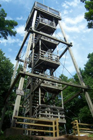 The observation tower on top of Timms Hill, Wisconsin.